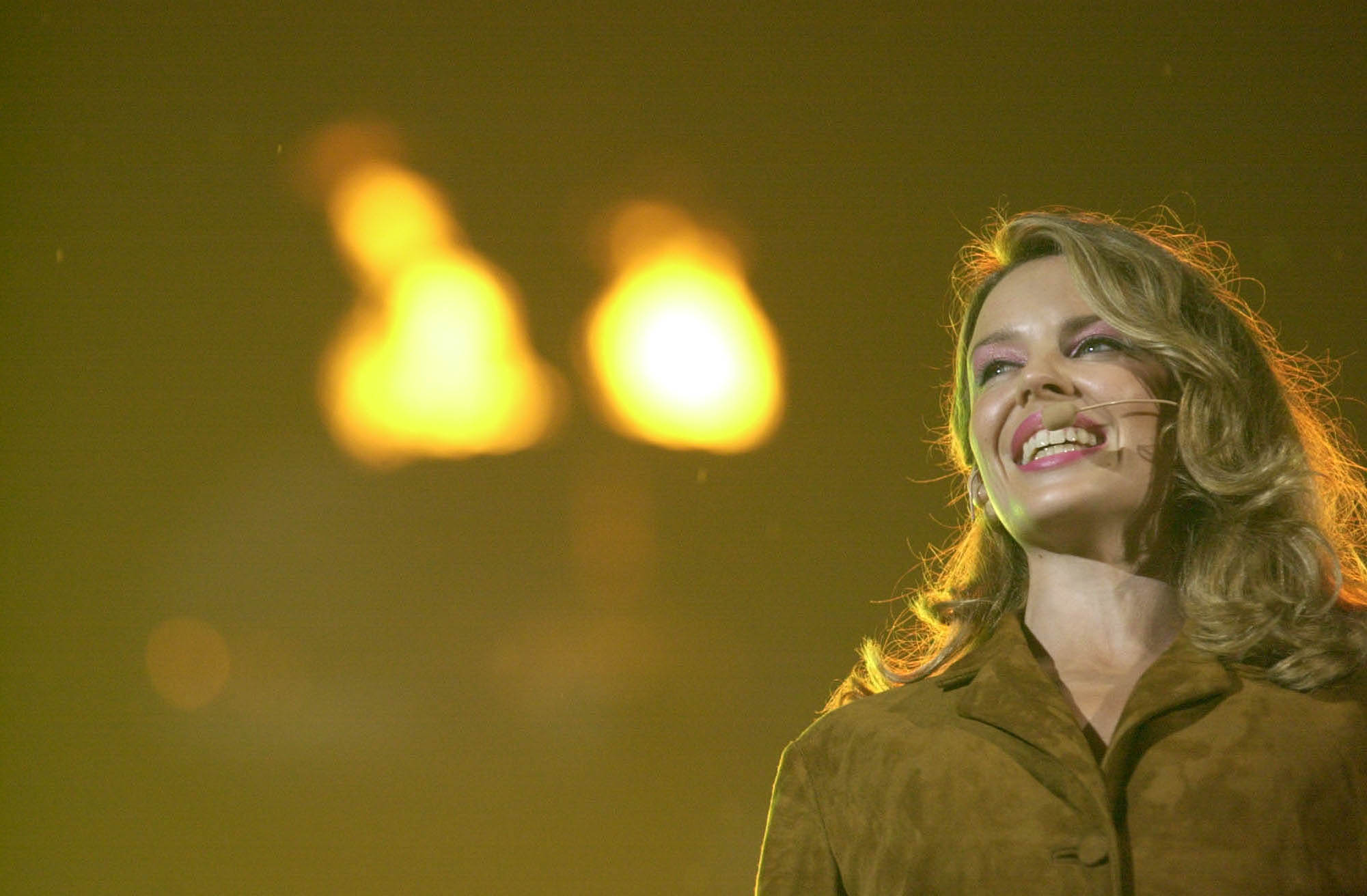 Australian singer Kylie Minogue performing infront of the Paralympic Flame during the Sydney Paralympic Games Opening Ceremony